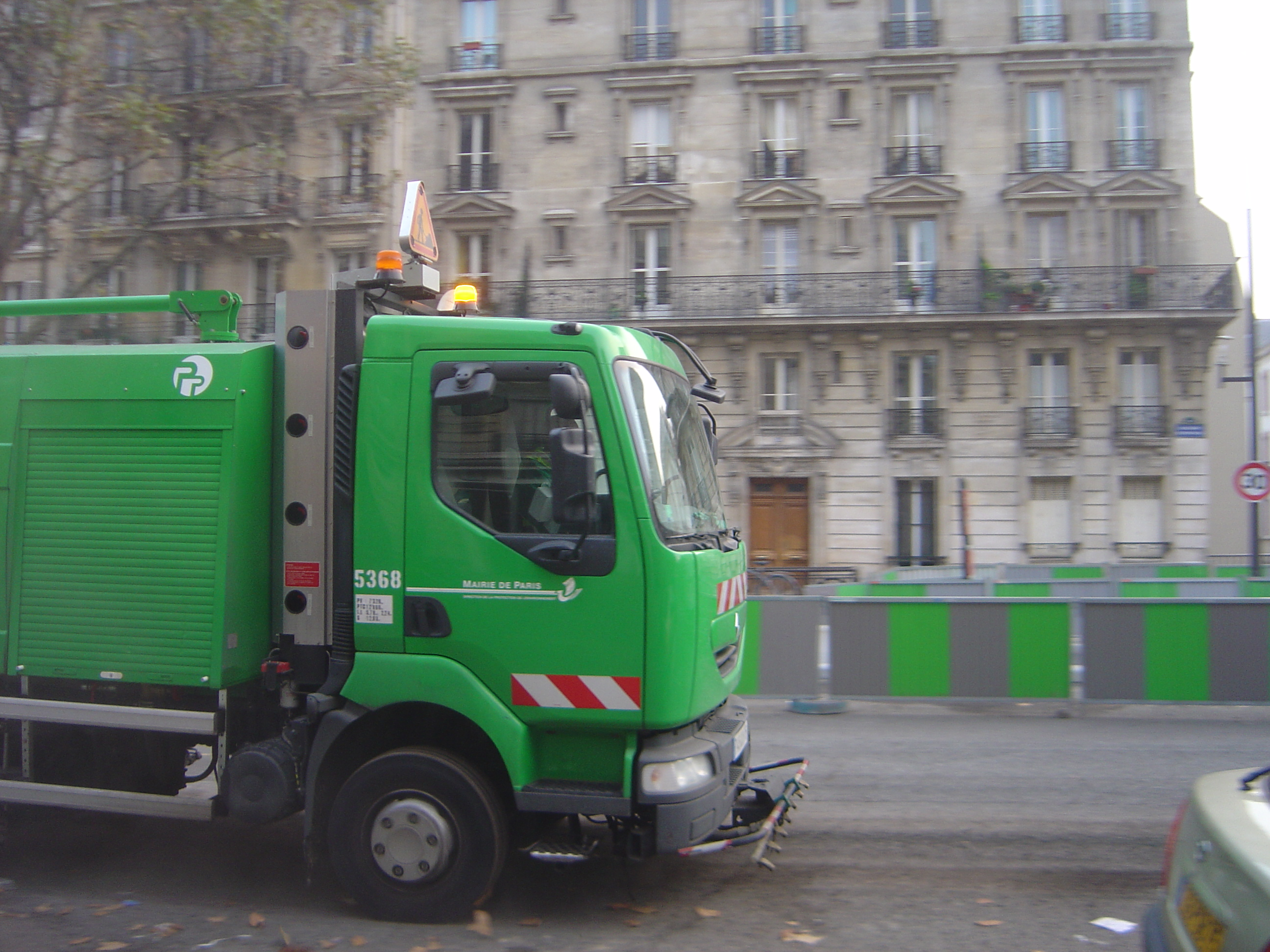 Demonstration in favour of public services, Paris, France, November 19, 2005